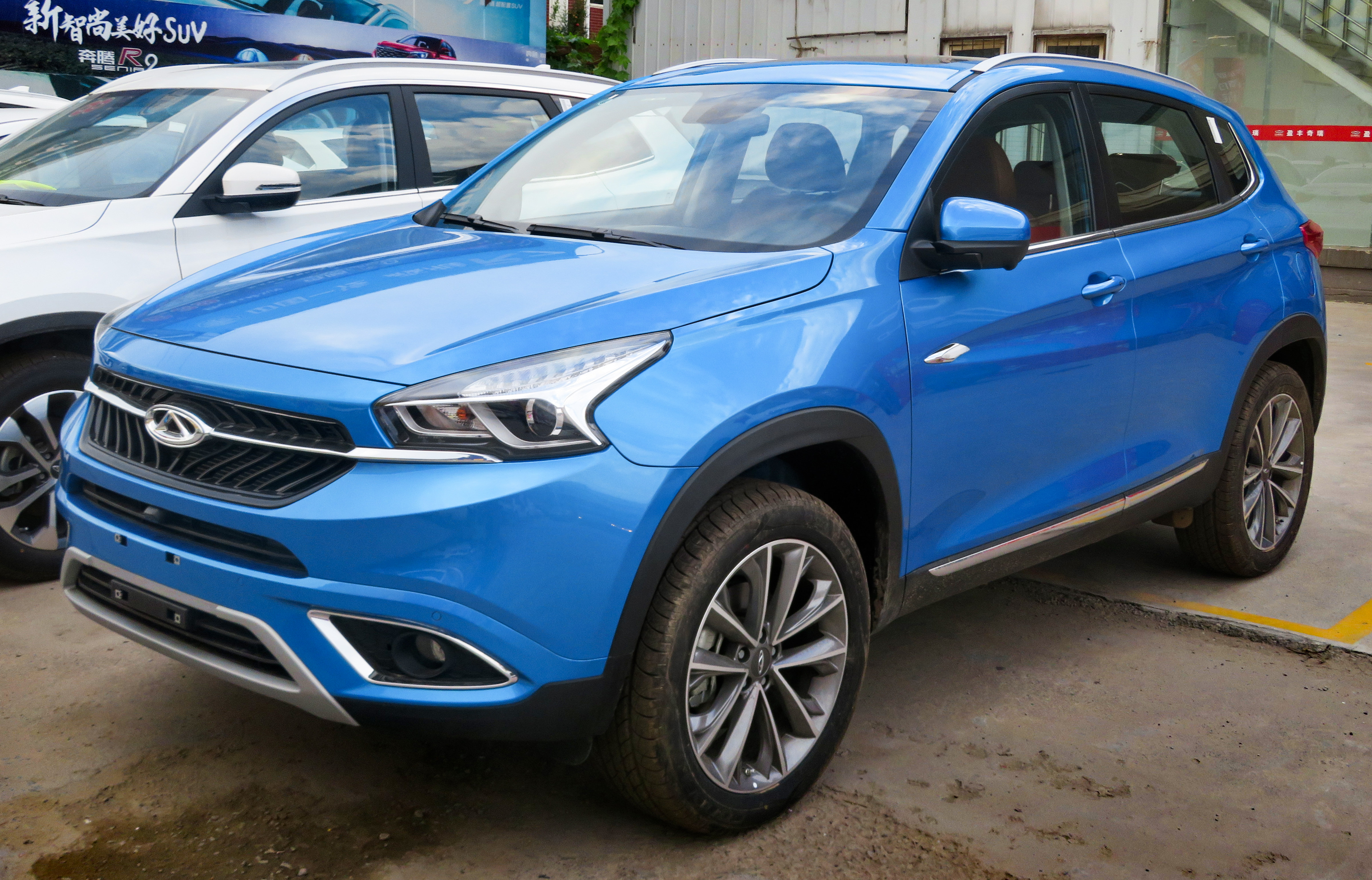 Photographed in Zhengzhou, Henan province, China